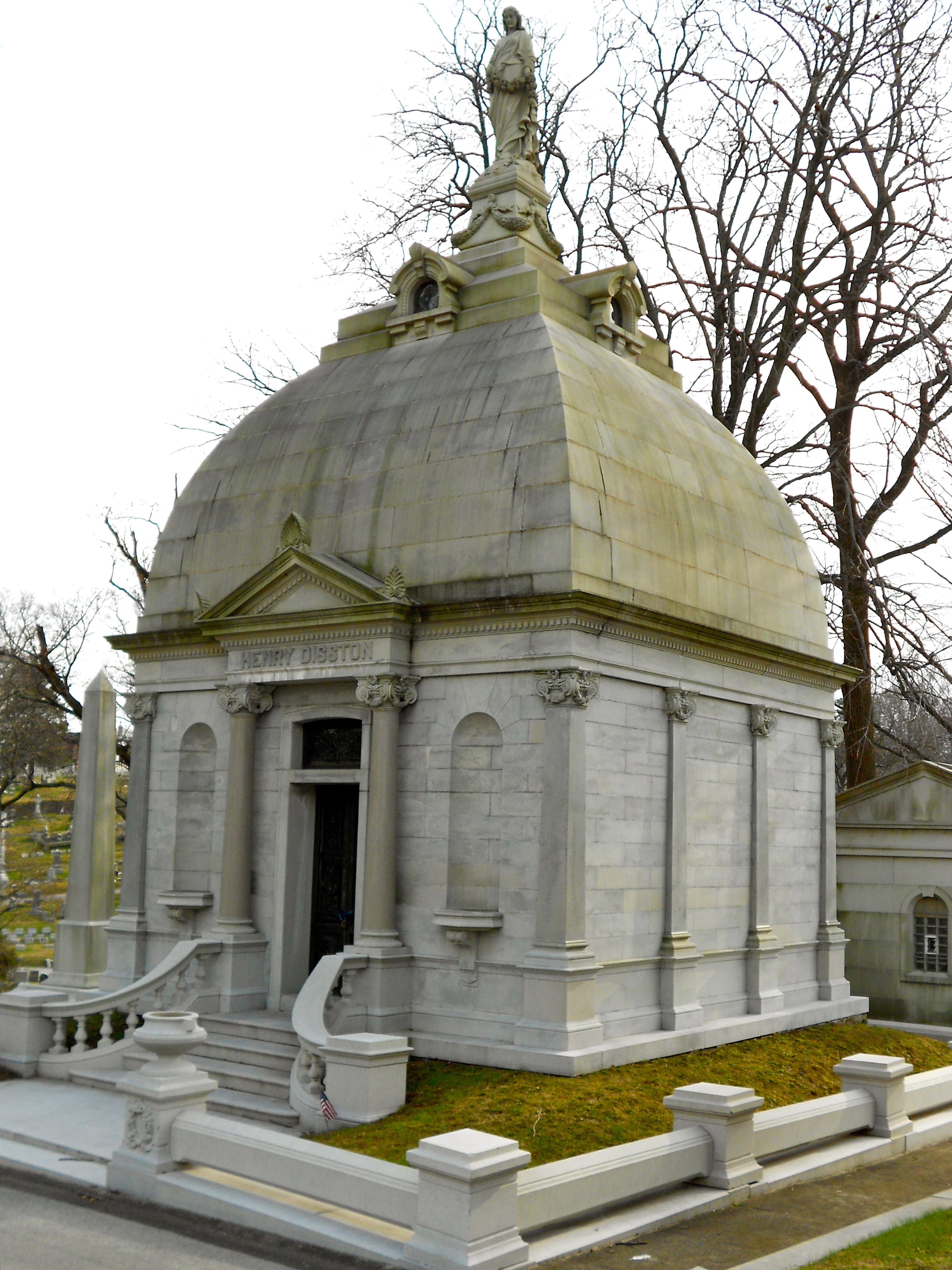 Disston Tomb in Laurel Hill Cemetery, Philadelphia. Disston was a saw manufacturer.